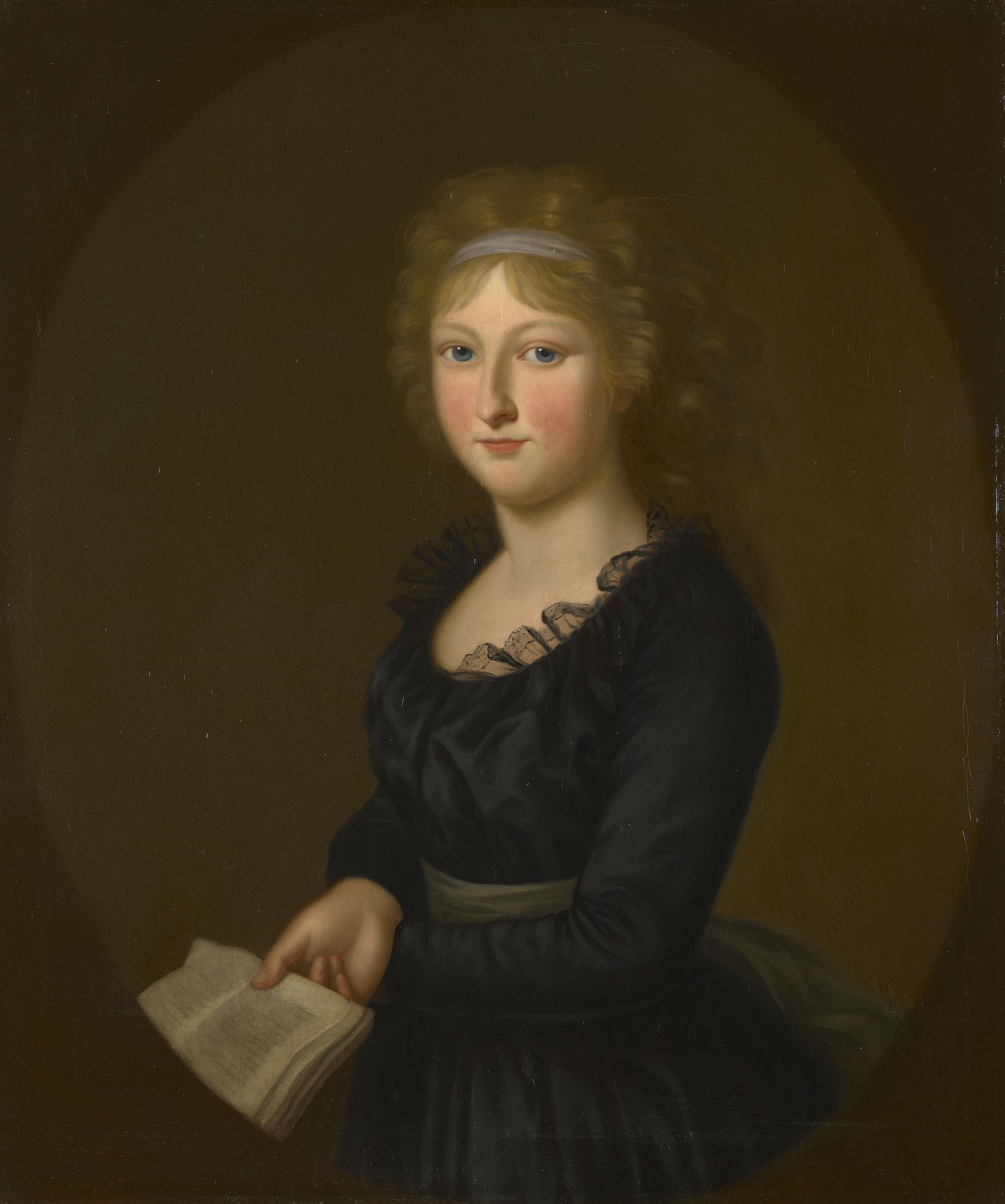 Antoinette of Saxe-Coburg-Saalfeld (1779-1824), later Duchess of Wurttemberg